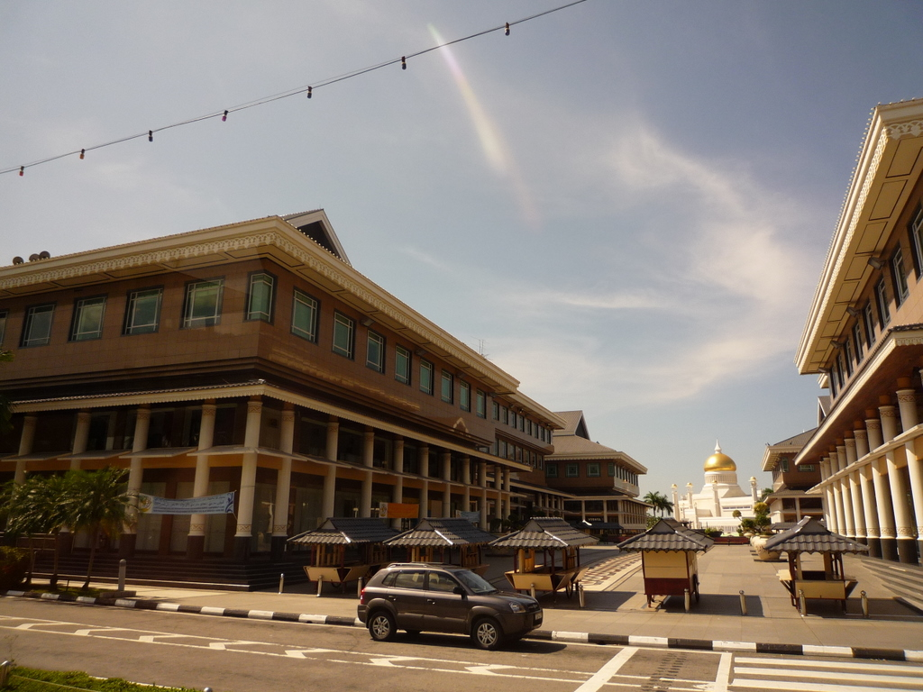 Downtown Bandar Seri Begawan, Brunei Darussalam.